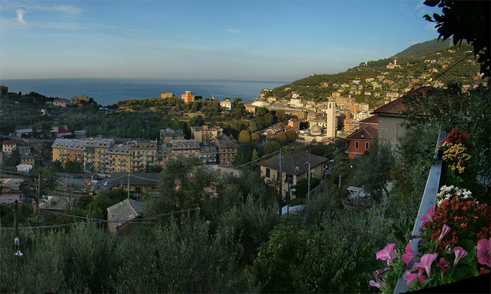 Recco, Liguria, Italy. At sunrise.